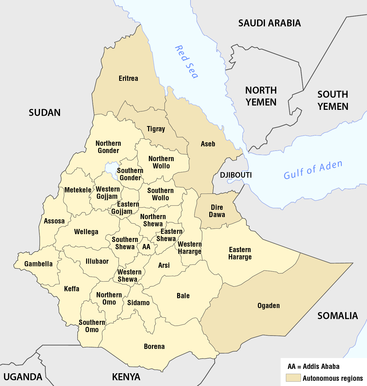 Map of the 30 regions of Ethiopia, 1987-1991